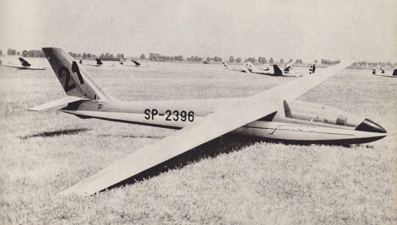 Polish glider "Foka" SP-2396 during Gliders Championship in Leszno